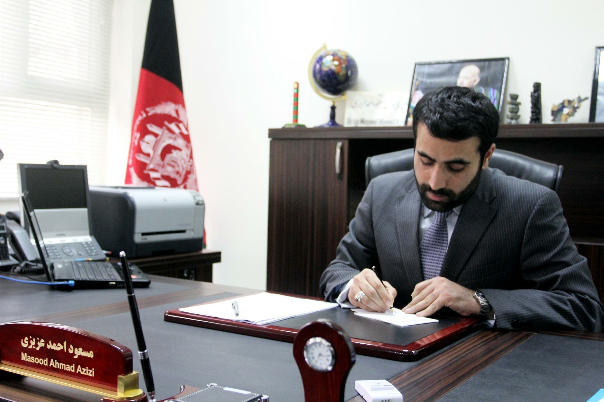 Major Gen. Azizi in office